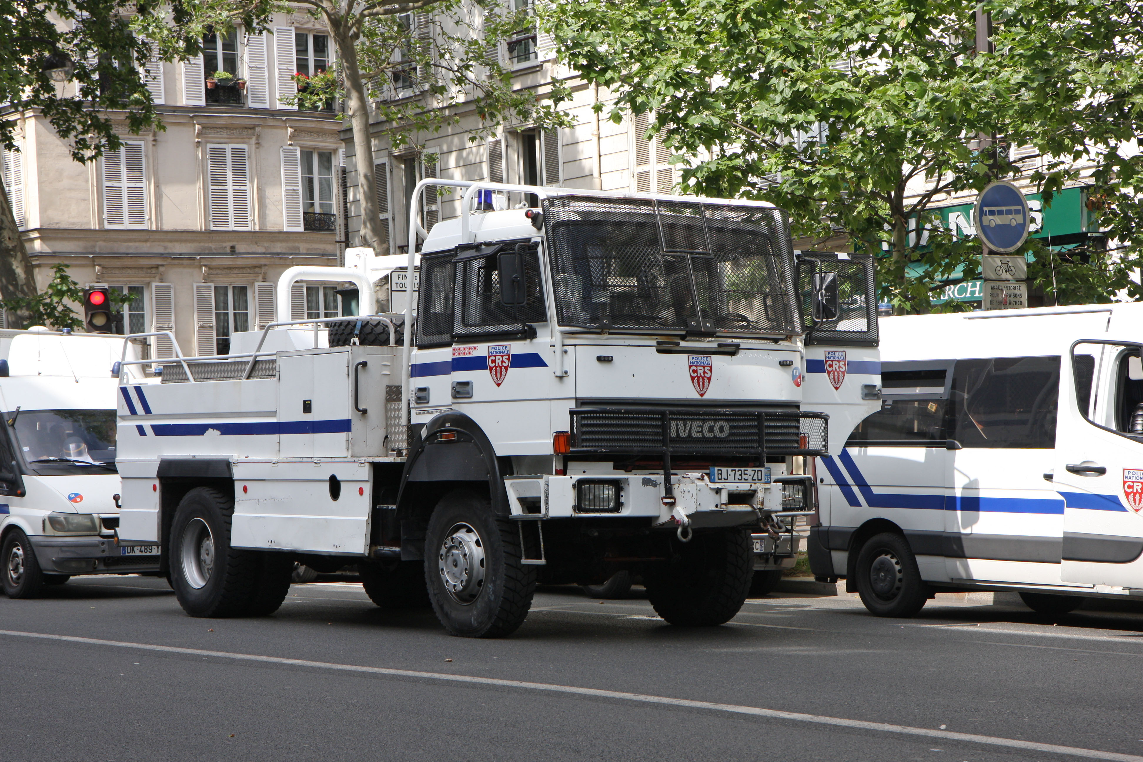 French CRS water cannon vehicle